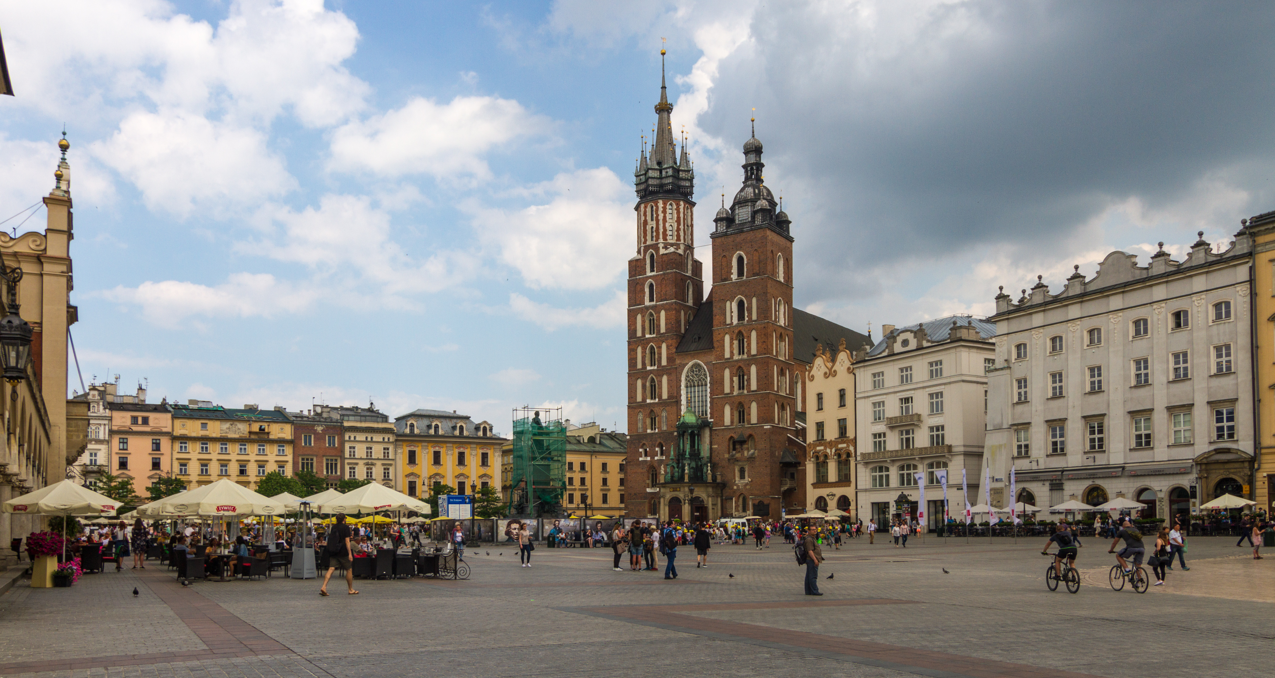 Old Town Market Square in Kraków